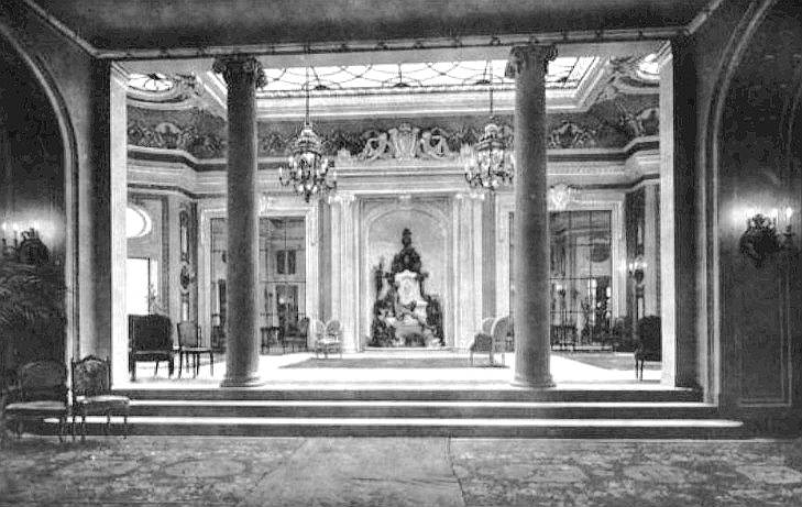 Photo of the ballroom at The Ritz, London in 1906.